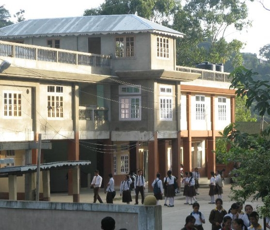 Building of Synod HSS